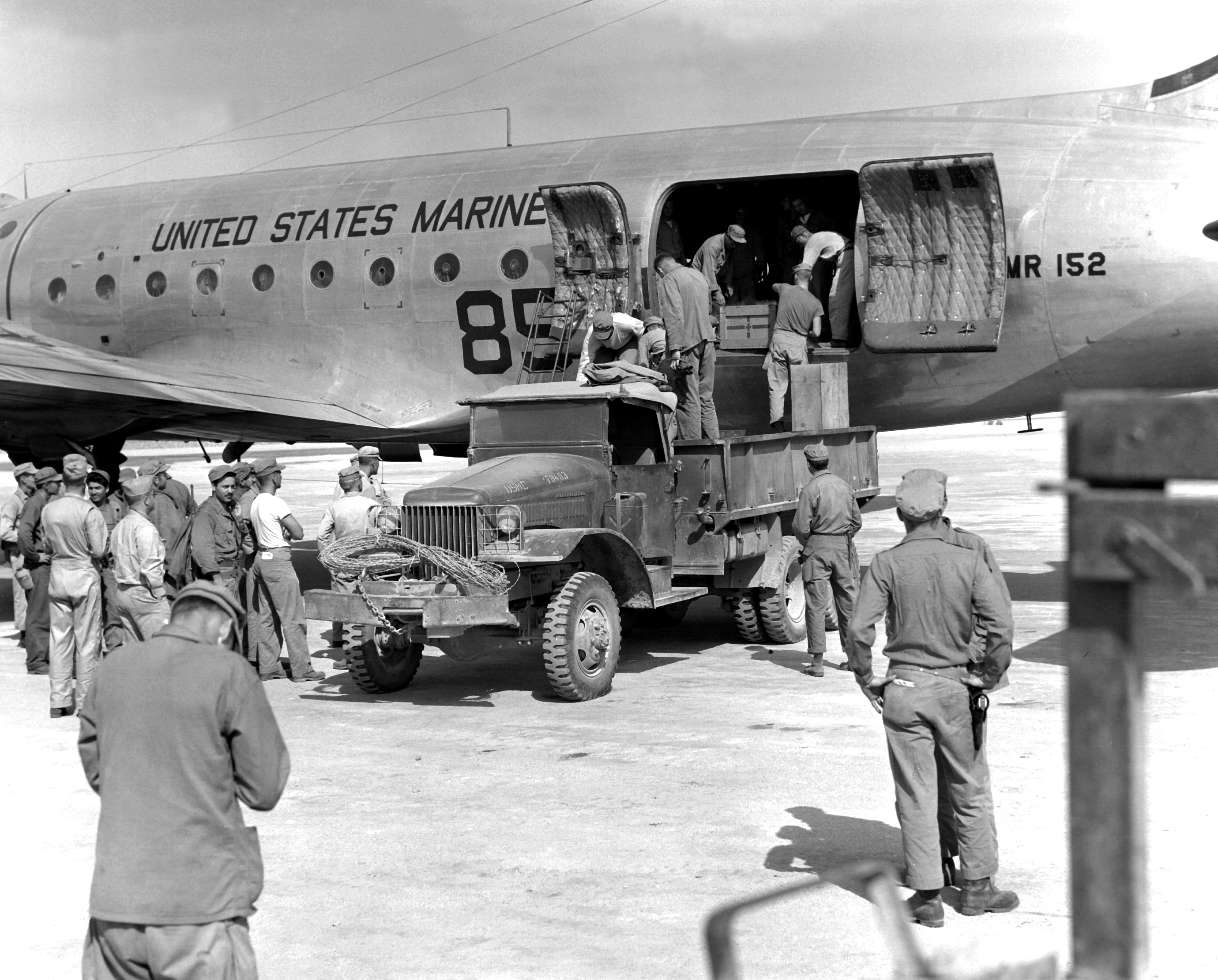 United States Marines unload medical supplies and food from a Douglas R5D-2 Skymaster (after 1962 C-54P) cargo plane assigned to Marine transport squadron VMR-152 at Chunchon, Korea, in 1950.